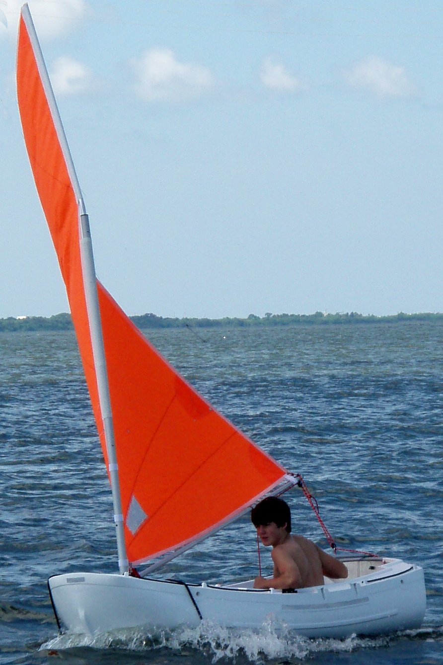 Portland Pudgy sailing dinghy for kids